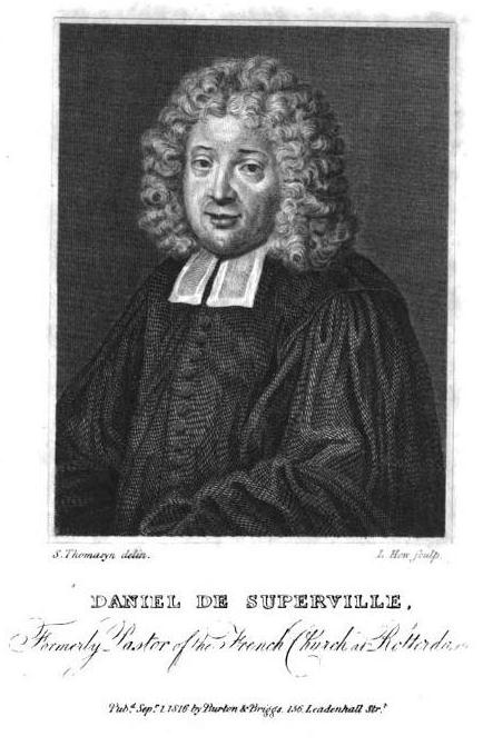 Engraving of Daniel de Superville (1657-1728), French Reformed Theologian, Minister of the Wallonian Church in Rotterdam, frontispiece of the English edition of his "Sermons"1816